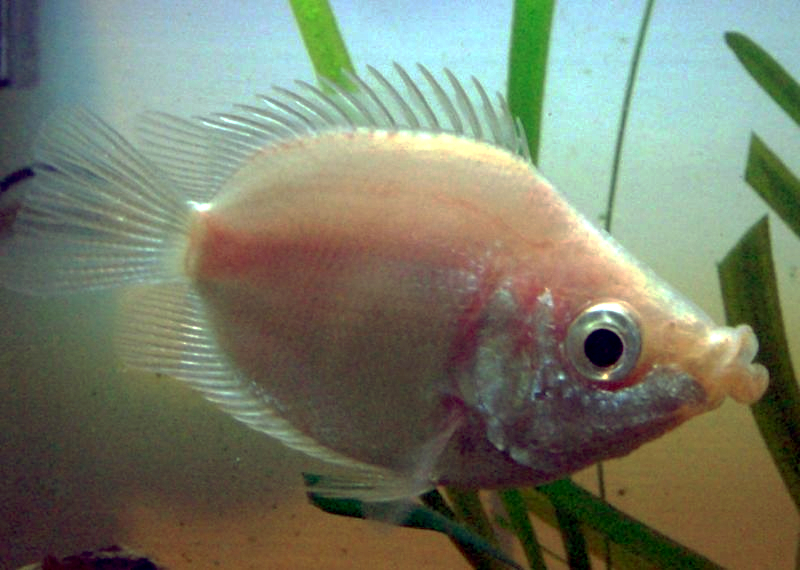 Helostoma temminckii.